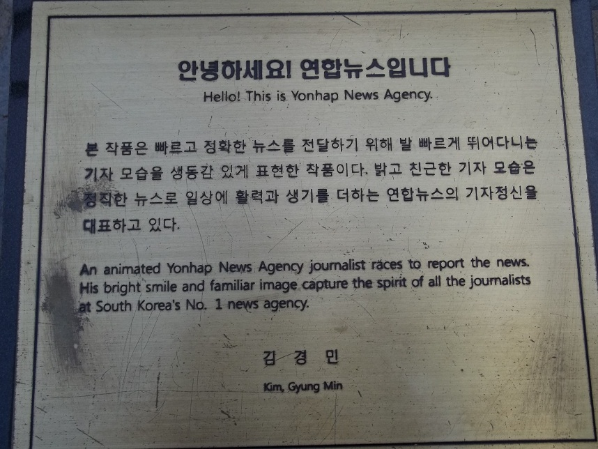 Yonhap News Agency Journalist plaque at foot of statue, Jongno-gu, 2014